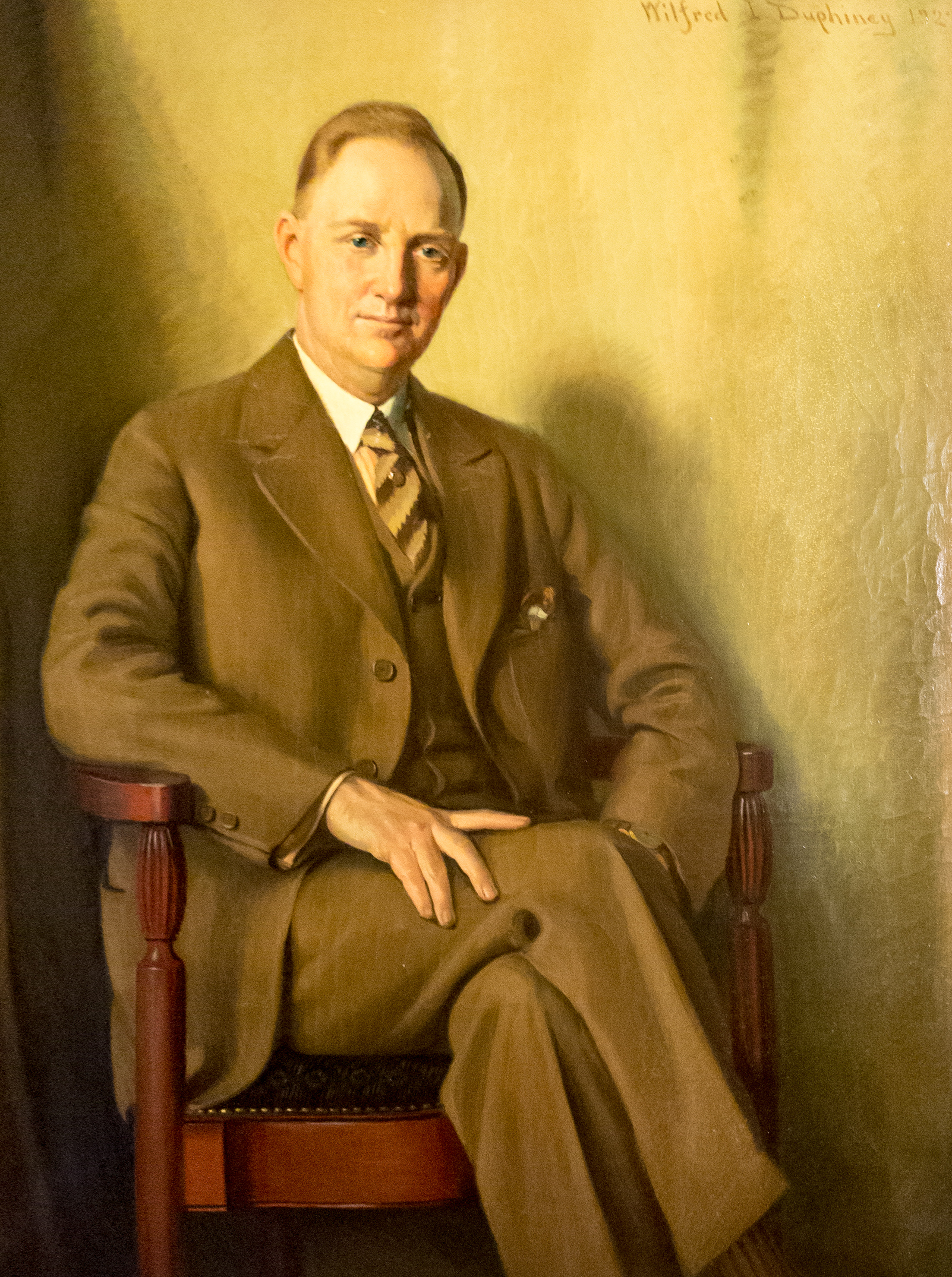 Rhode Island House Speaker Roy Rawlings (1883-1973). Painting by Wilfred I. Duphiney. Rhode Island State House collection.